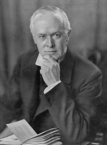 Ronald Munro-Ferguson (also known as Lord Novar), the Governor General of Australia (1914-1920).